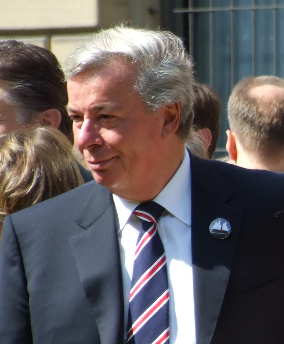 Nikolaus Schweickart, Chairman of the Board of Trustees Städel Museum, 2009, Frankfurt am Main